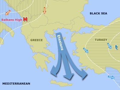 Origin of Etesian Winds. Detailed View. Polar stereographic projection, Map center is at 40° East, 26° North. Created with Front Painter v2.0a (Freeware).